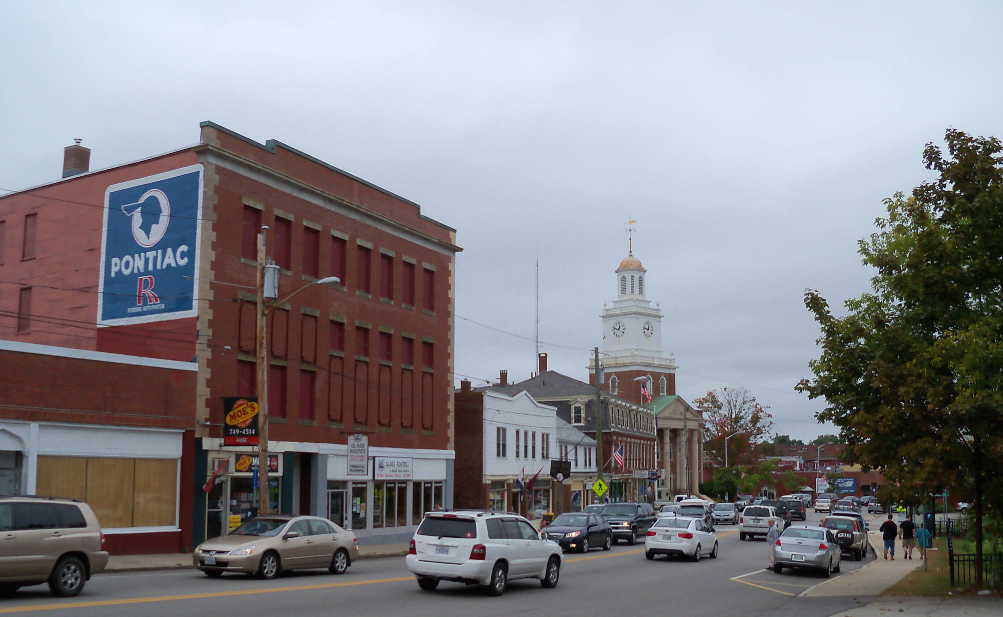 Scene in downtown Dover, New Hampshire, USA.